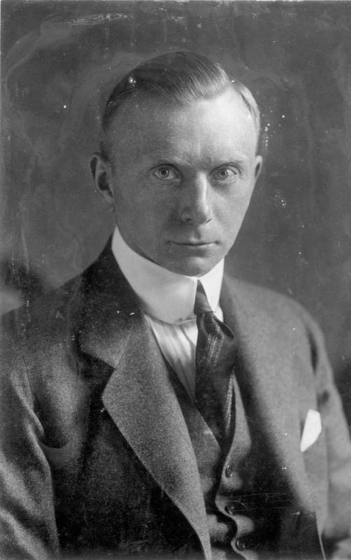 This description has been identified as biased or incorrect: standesamtlich korrekte Namensform (auch schon zu Zeiten der Monarchie) mit dem Freiherrn-Titel zwischen Vorname(n) und Nachname / officially (civilly) correct form of the name with "Freiherr" between first name and surnameFreiherr Werner von Rheinbaben 25.10.1920 6591-20